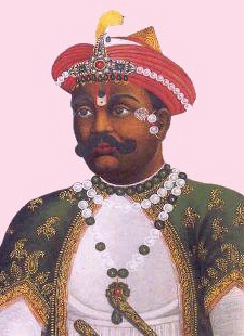 Mahadaji Scindia Bahadur, Wakil-i-Mutlaq and Amir ul-Umara, was the greatest ruler of Gwalior.